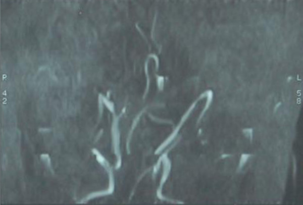 MR angiography reveals tortuosity of the cerebral vessels with hairpin like bending.